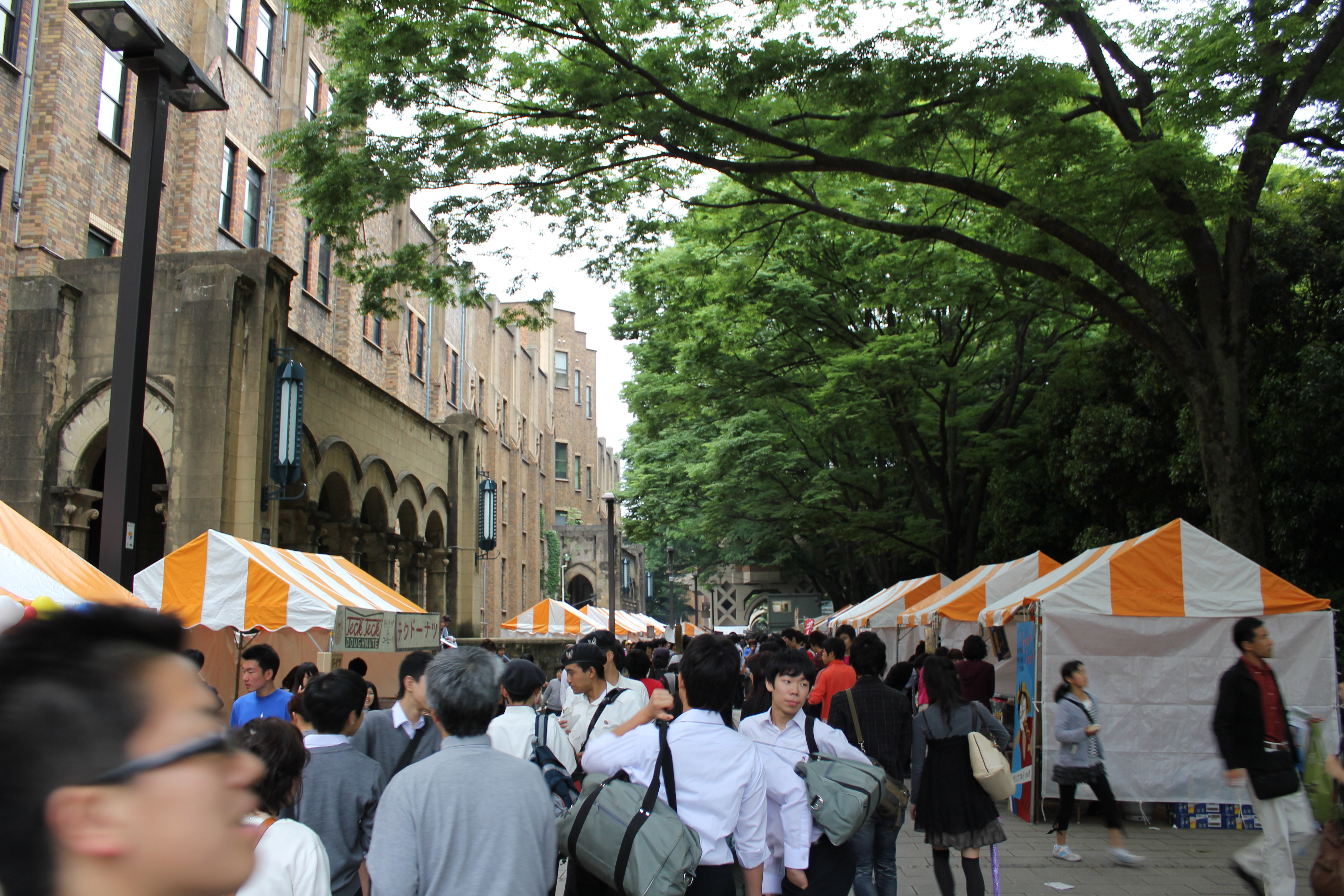 Gogatsusai, a festival held every May on the University of Tokyo's Hongo campus